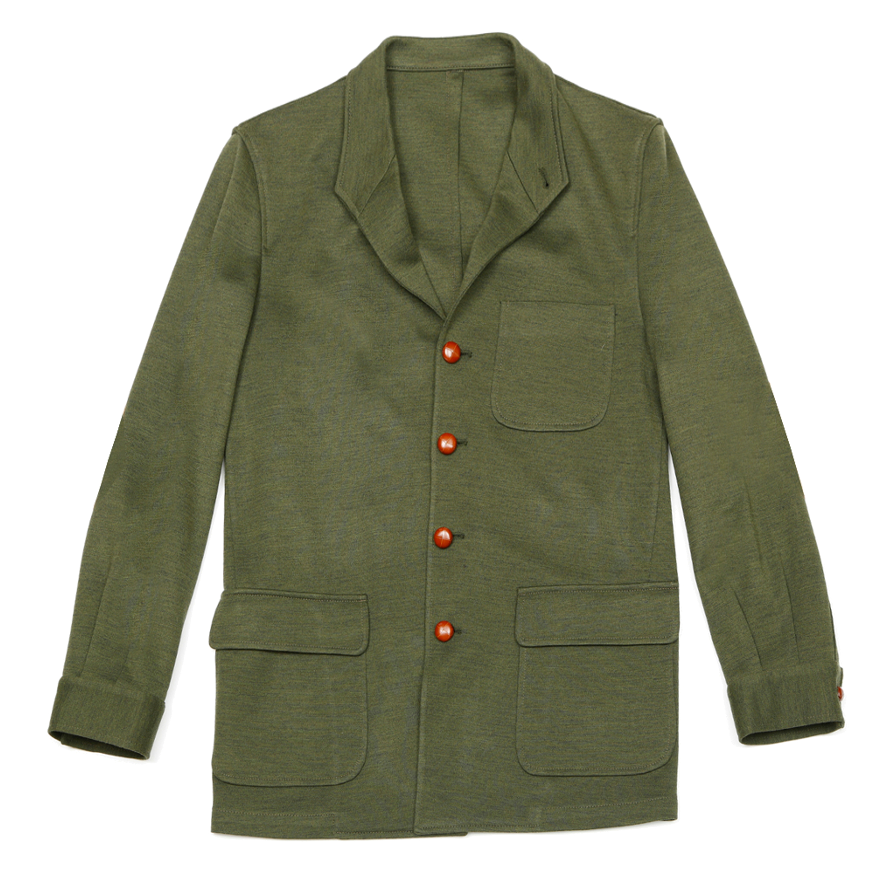 A green Teba jacket. These popular blazers took the name of the Earl of Teba, Carlos Alfonso Mitjans y Fitz-James Stuart, who was given a similar garment as a gift from the king Alfonso XIII during a driven hunt.